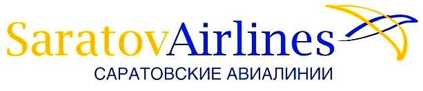 Saratov Airlines logo